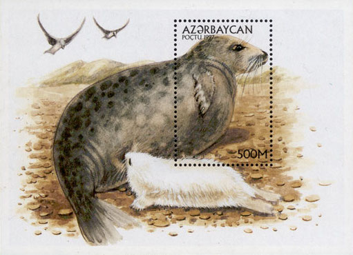 Stamp of Azerbaijan